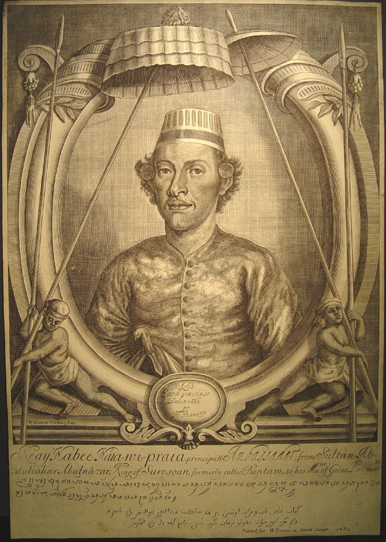 Description "Keay Habee Haia-ni-praia (Kiai Ngabei Nayawipraya) principall Ambassador from Sultan Abdulcahar Abulnazar King of Suro-soan, formerly called Bantam, to his Ma:tie of Great Britain & c", lithograph, dated 1682. Other text on the print is in Javanese.